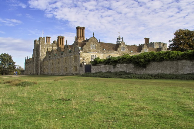 Knole House in Knole Park near Sevenoaks